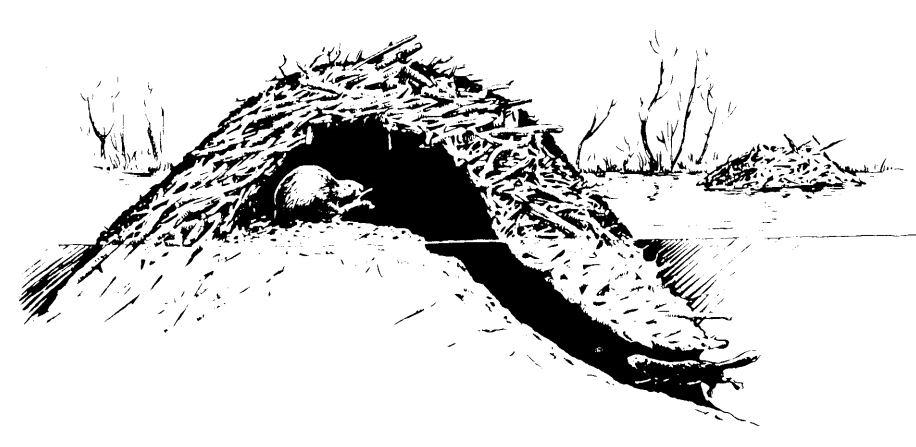 Illustration of beaver lodge, side view